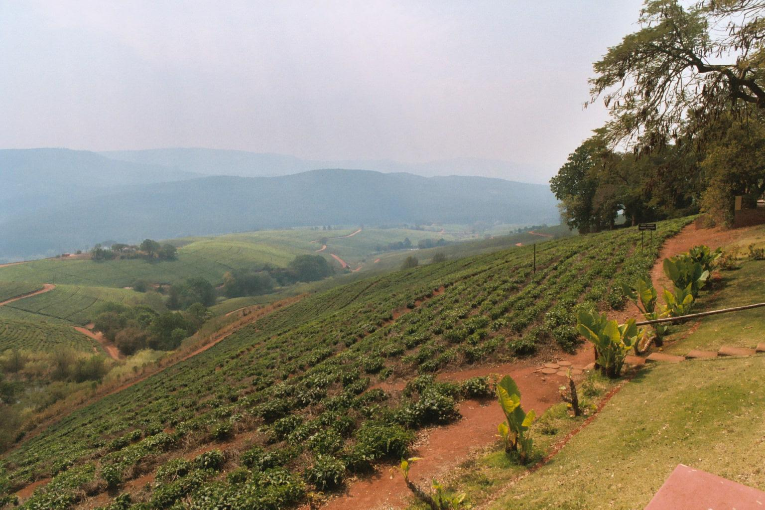 Tea plantation in Tzaneen, South Africa. August 2003.